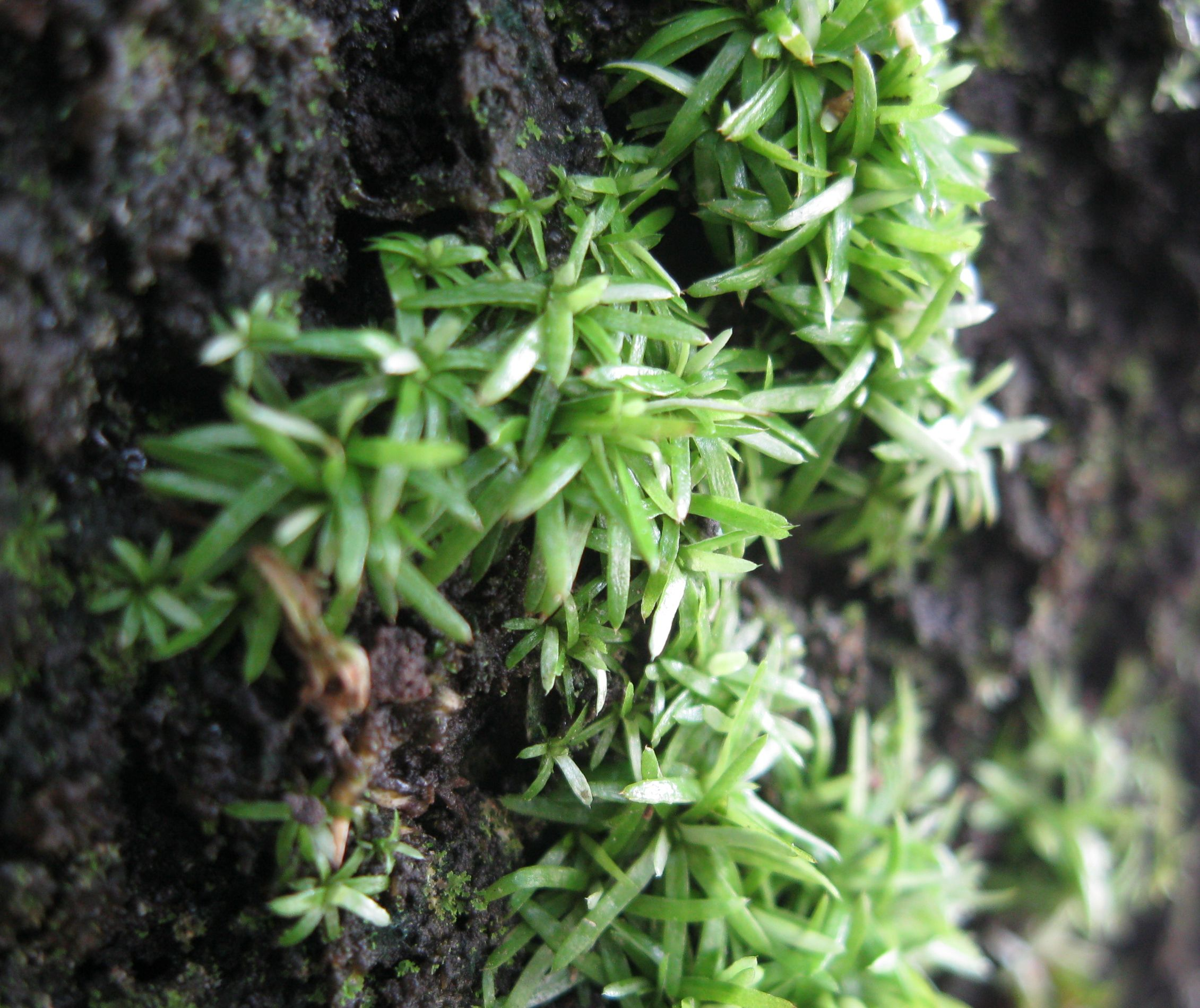 Plants small, somewhat glossy, often forming deep soft cushions.